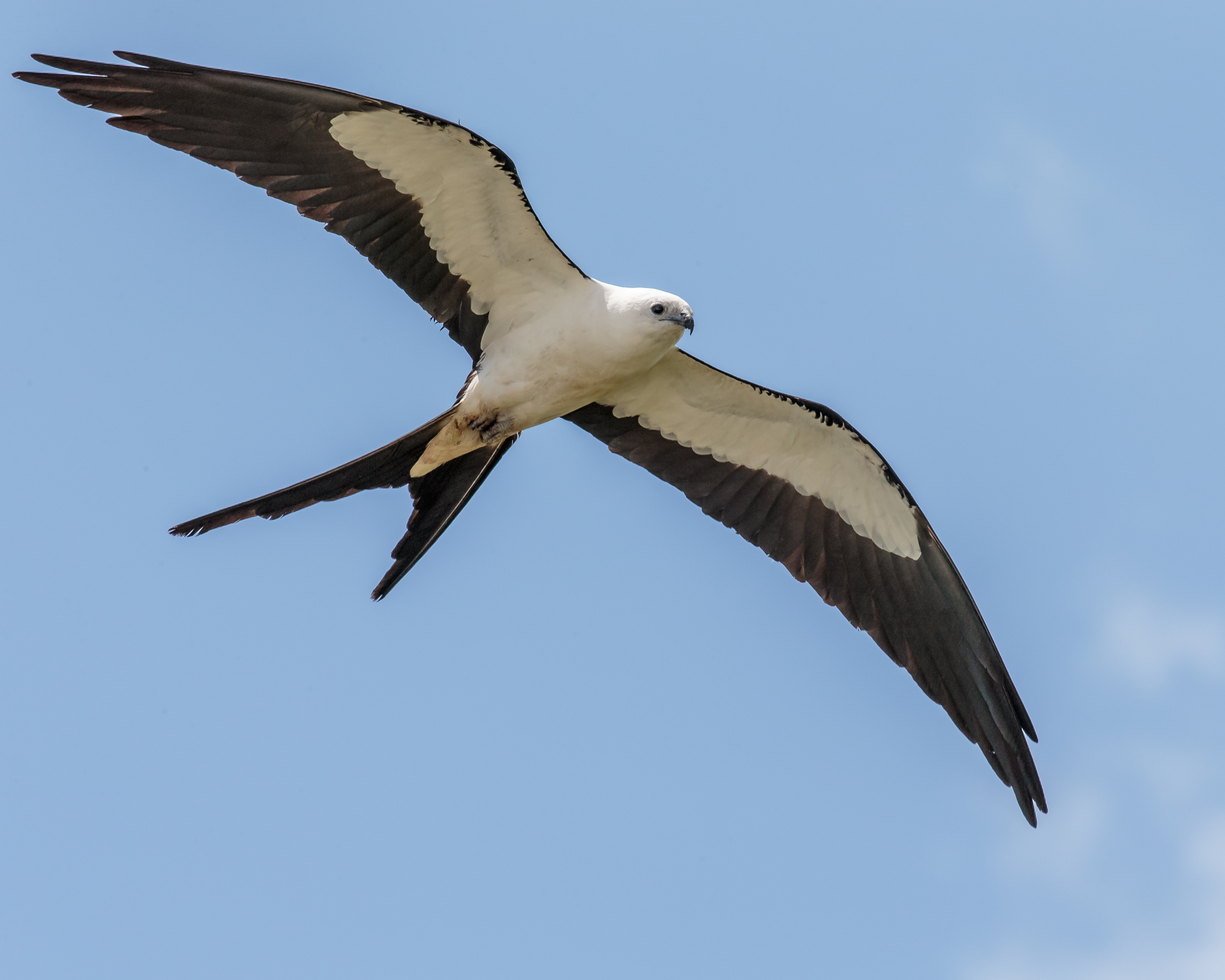 Swallow-tailed Kite, Tigertail Beach, Marco Island, Florida